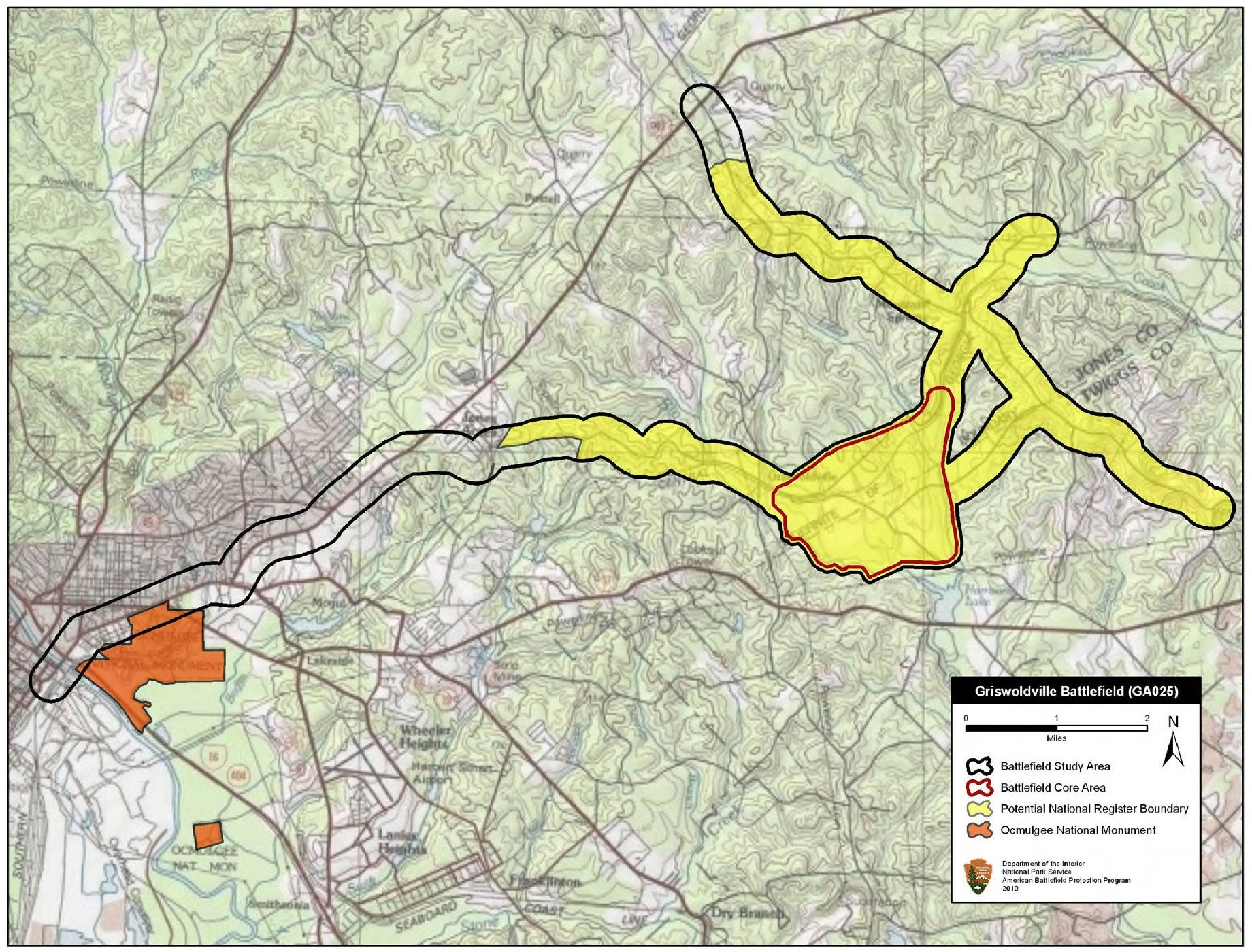 Map of battlefield core and study areas. The ABPP expanded the 1993 Study Area to include the Federal approach route, along which Walcutt’s force remained prepared to intercept Wheeler’s cavalry, and to include the Georgia militia’s route of march from Macon, during which it expected to encounter Federal forces. The Core Area was expanded to the north to take in the 9th Pennsylvania and 5th Kentucky’s cavalry charge against Wheeler’s Cavalry Corps.